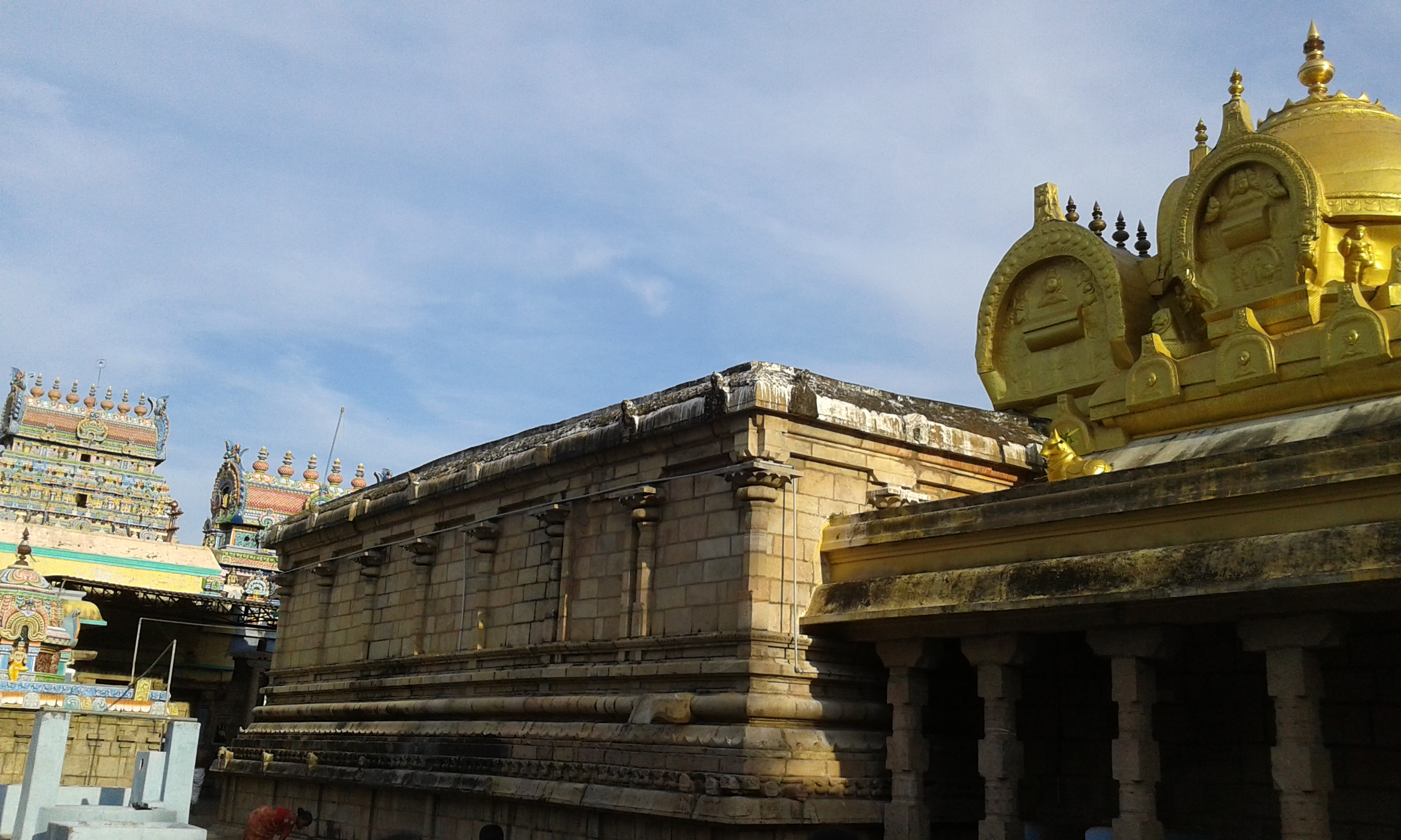 Veezhinathar temple